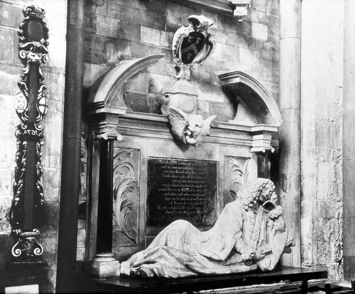 Monument of Lionel Lockyer in Southwark Cathedral Wellcome Images Keywords: Lionel Lockyer